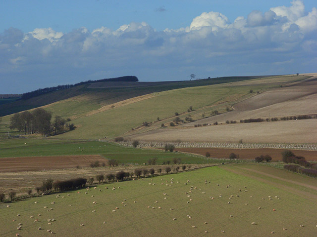 The Berkshire Downs between Lambourn and Ashbury The view from Near Down. The sheep are in the field immediately south of byway crossroads on Fognam Down. The B4000 runs, roughly speaking, across the middle of the picture, above the brownest field and below the small copse. The view encompasses Berkshire and modern day Oxfordshire and possibly a smidgeon of Wiltshire at centre left. The boundary with Oxfordshire descends from the skyline at top right diagonally leftwards, following the line of a bridleway. Kingstone Down and the top of Weathercock Hill are in the shadow of a passing cumulus cloud.